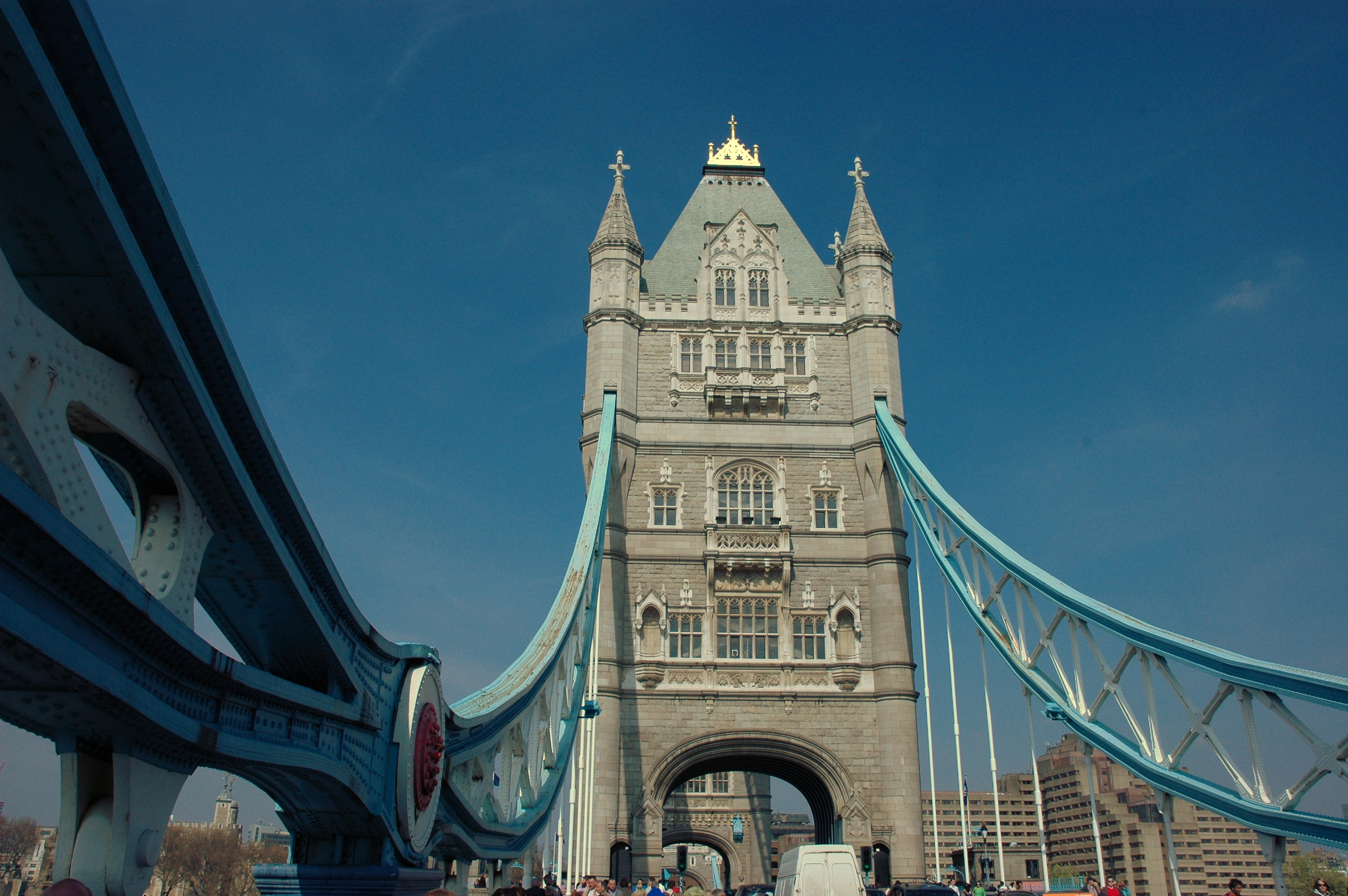 Londres - Tower Bridge - Dins